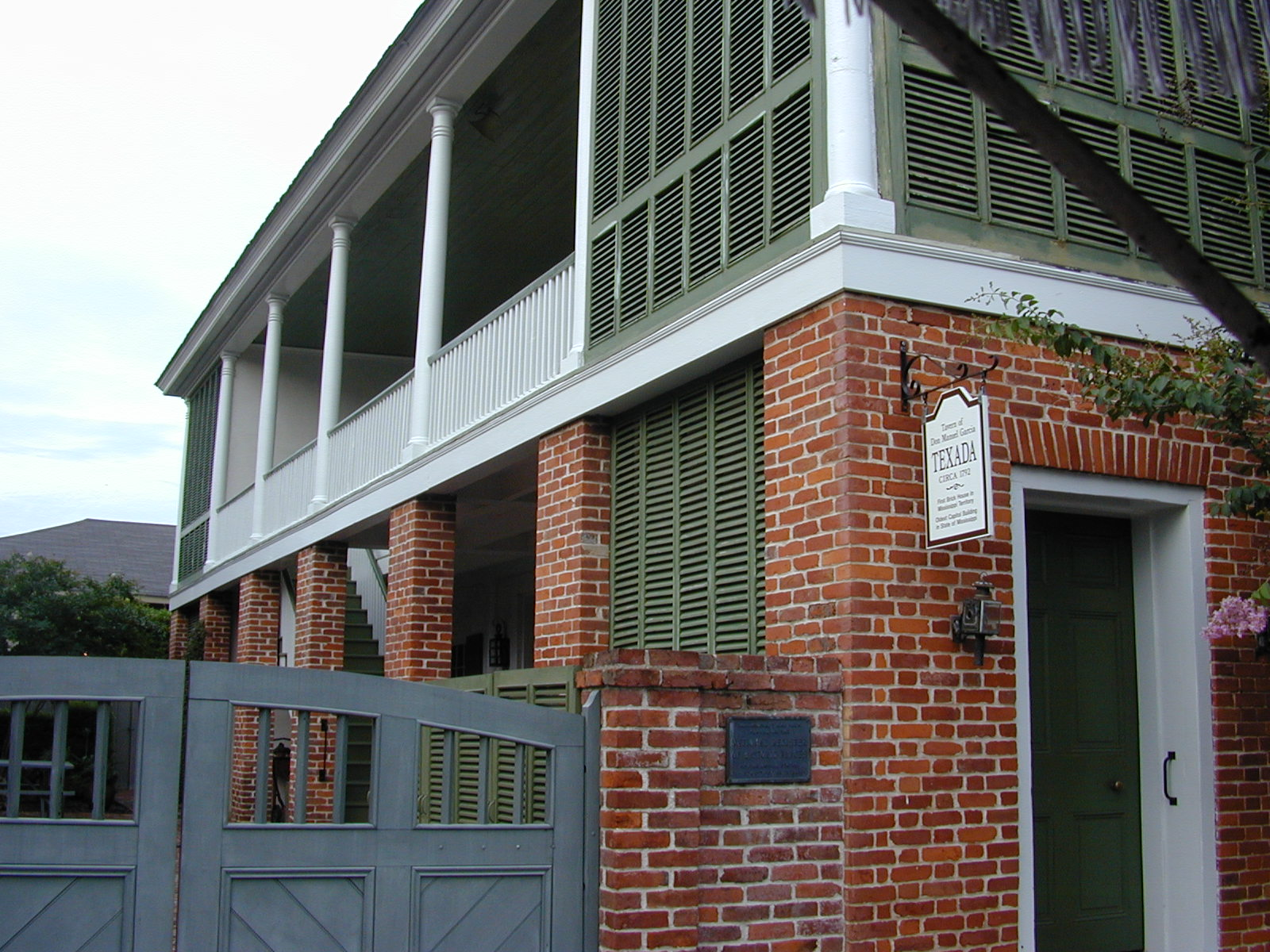 Texada, Oldest Brickhouse in Mississippi